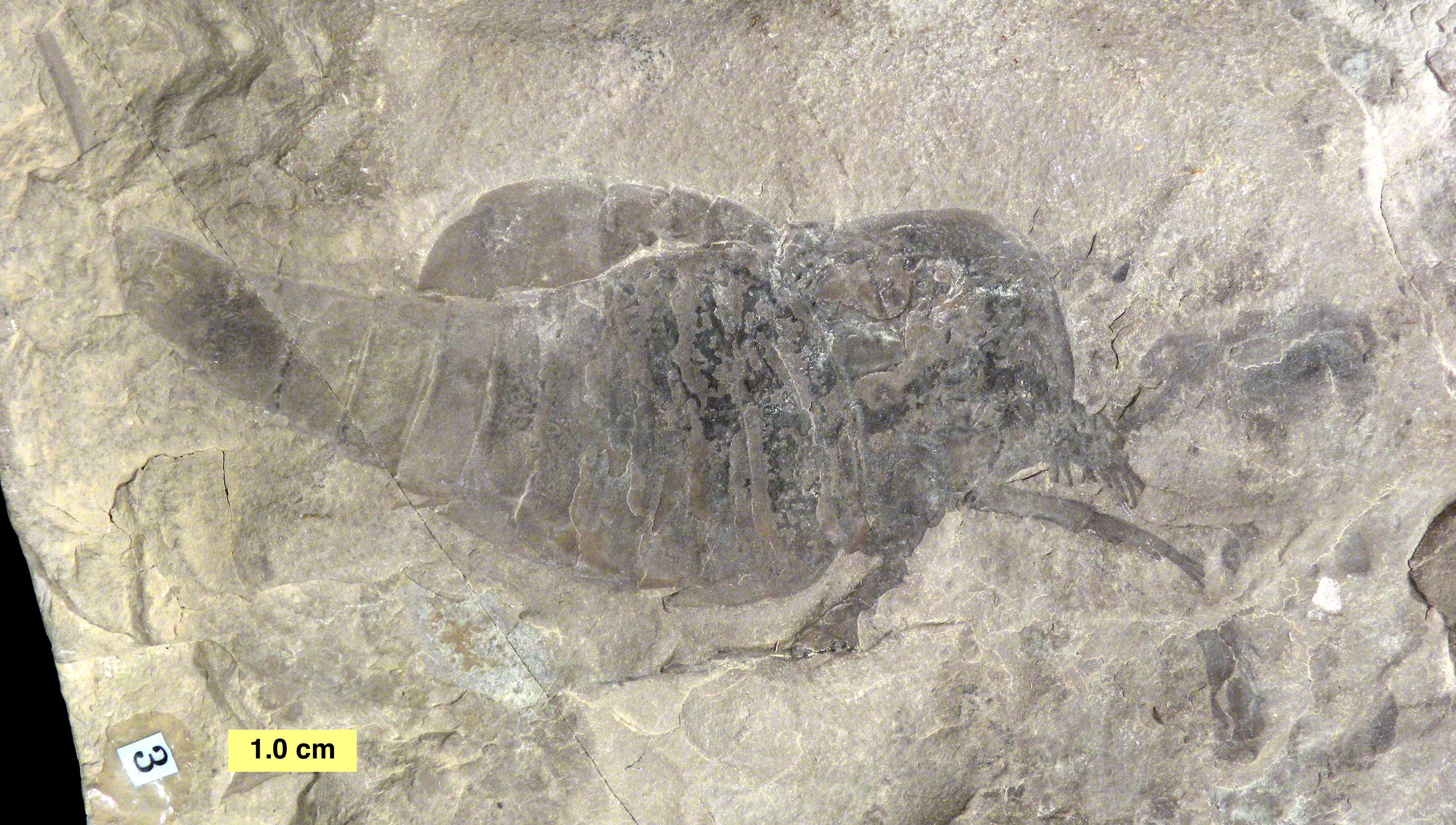 Eurypterus from the Bertie Waterlime (Upper Silurian) of New York.